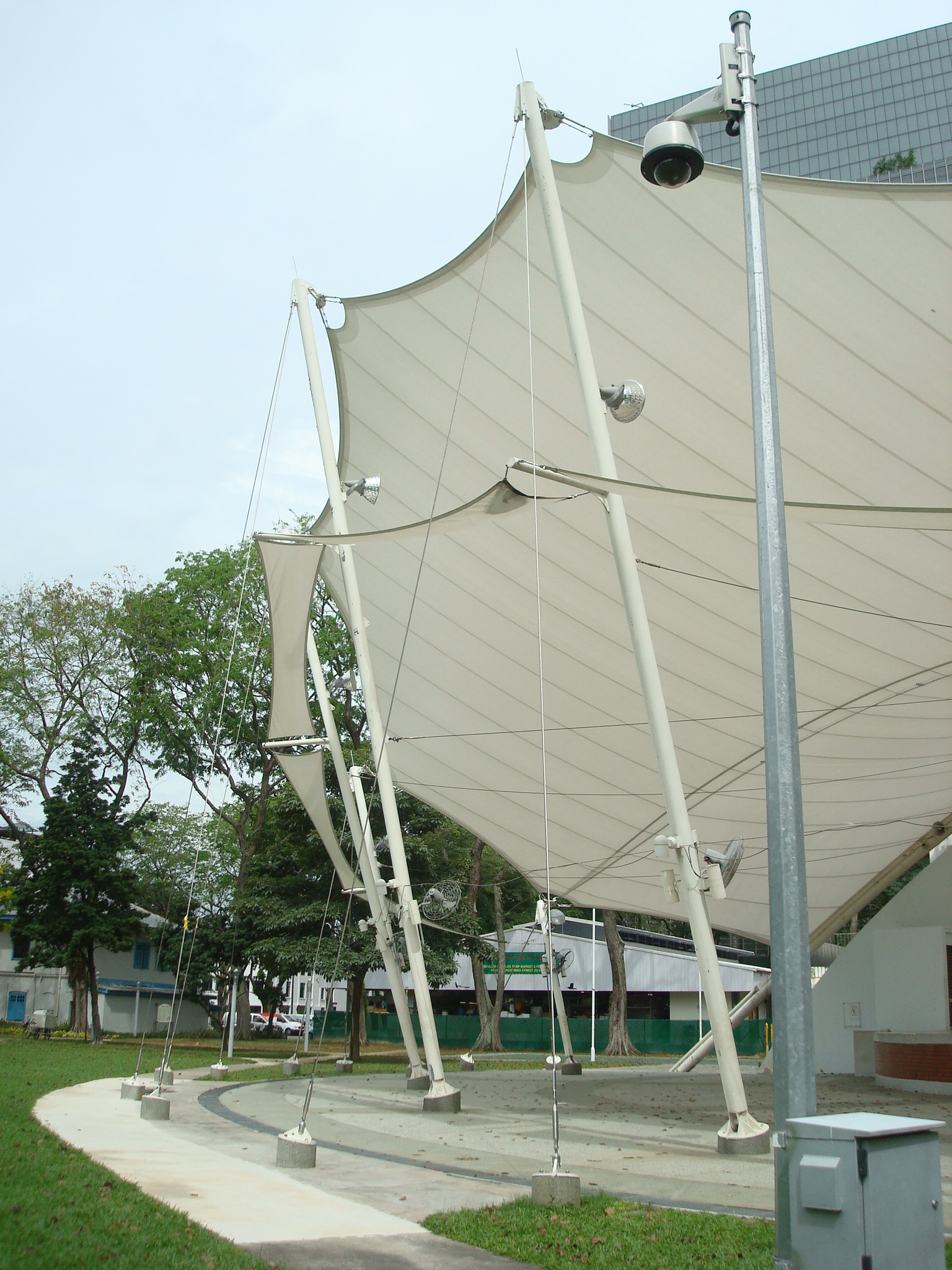 A closed circuit television (CCTV) camera on the premises of the Telok Ayer Hong Lim Green Community Centre, near Speakers' Corner in Singapore. The centre does not form part of Speakers' Corner.